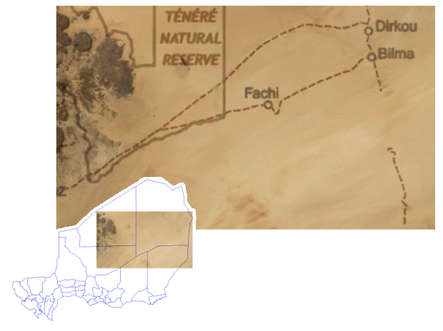 Location Map of the Erg of Bilma, showing towns of Falchi and Bilma, Niger.